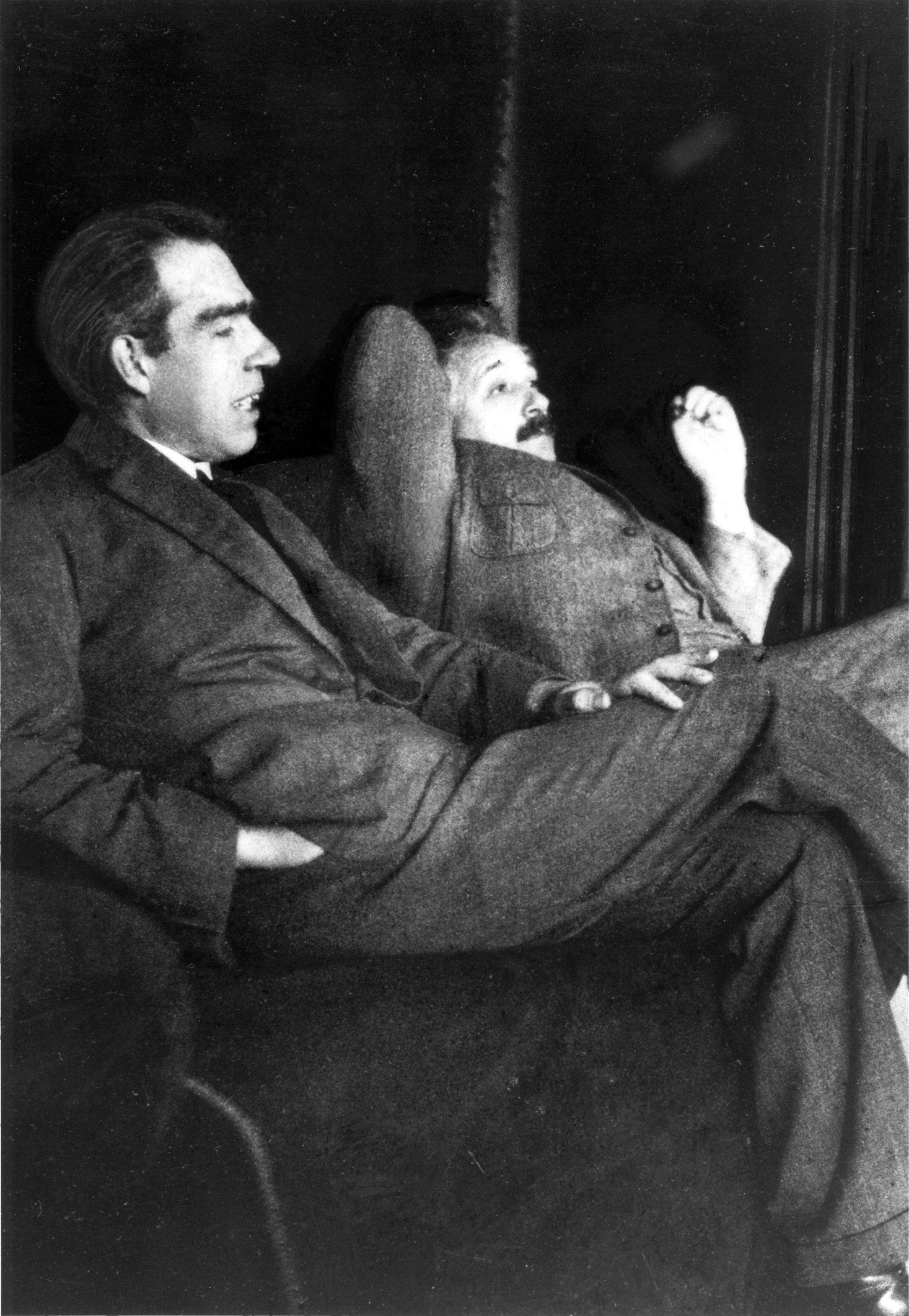 Niels Bohr and Albert Einstein. The picture was taken at Ehrenfest's home in Leiden, the occasion was most likely the 50th anniversary of Hendrik Lorentz' doctorate (December 11, 1925).